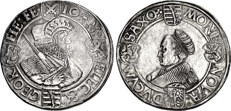 GERMANY, Sachsen-Ernestinische Linie. Johann Friedrich I and Georg. Elector and Duke, 1525-1530. AR Taler (38mm, 29.99 g, 12h). Annaberg mint. Undated. IOAN : ELEC • & GEORG : FIE : FE •, bust right, holding sword; four coats of arms within legend / MONE NOVA DVCVM SAXO, bust left; four coats of arms within legend. Schnee 51; Davenport 9717. Good VF.